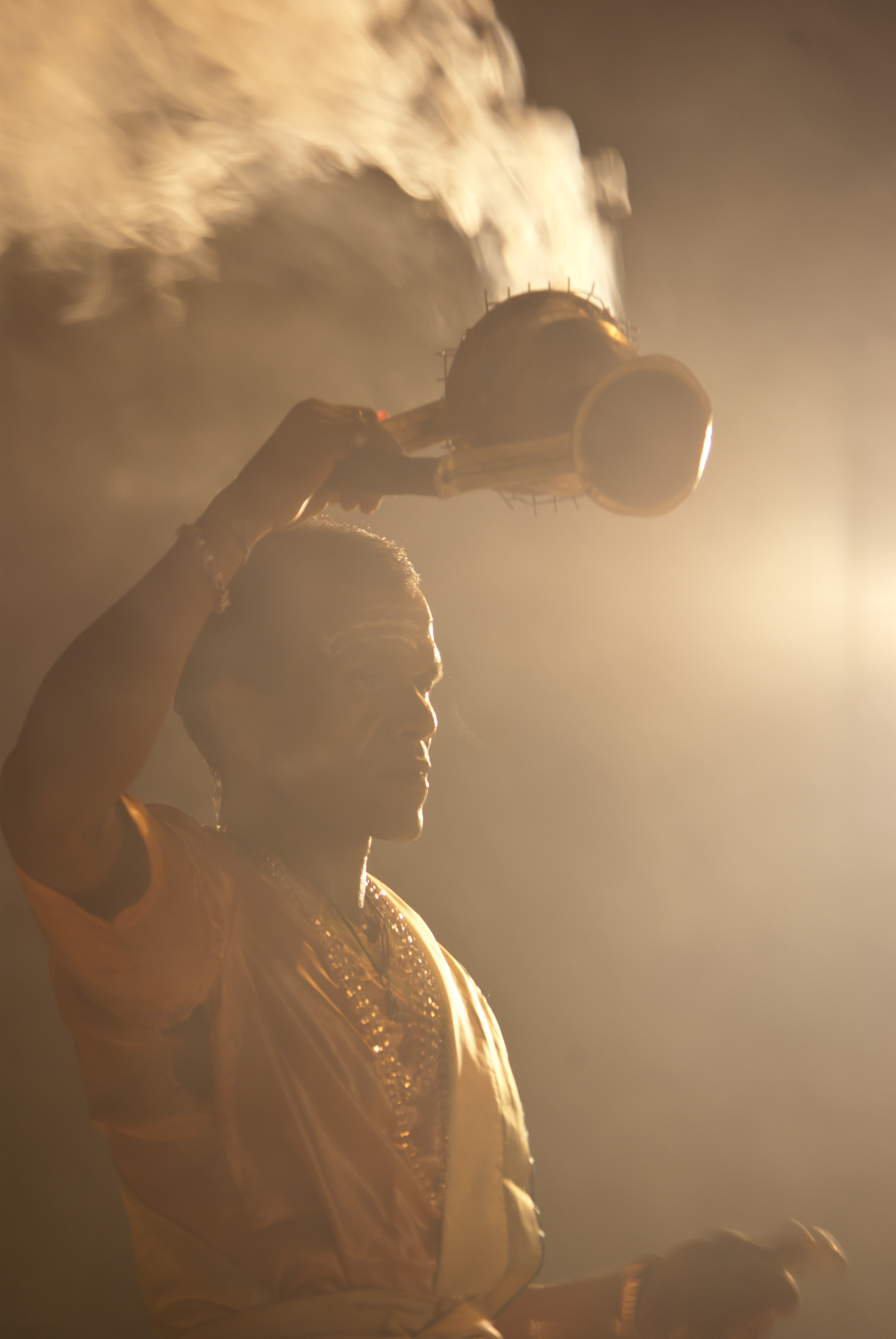 evening Ganga aarti in Varanasi